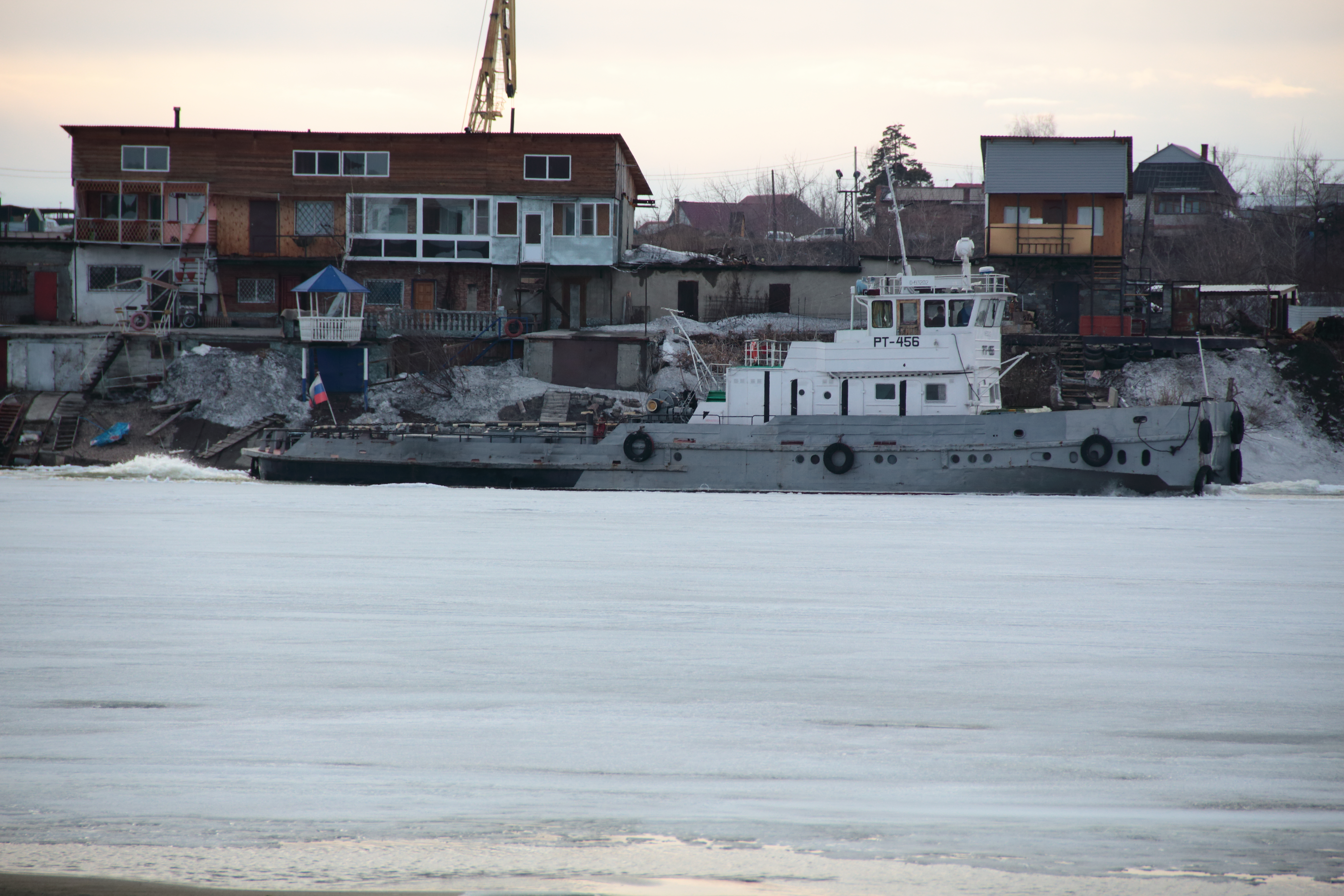 Ship RT-456 breaks ice on Biya river